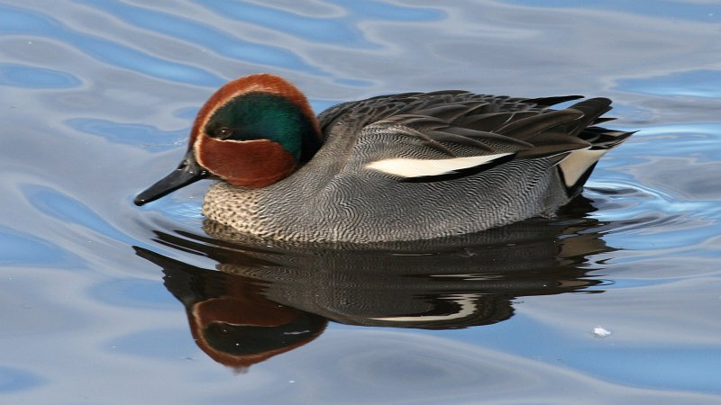 Teal Anas crecca, Martin Mere, Lancashire, England This image was created by Ken Billington. If you are interested in a high resolution copy of this image, please contact the author Ken Billington in order to negotiate conditions of use. Do not copy this image illegally by ignoring the terms of the license below, as it is not in the public domain. If you would like special permission to use, license, or purchase the image please contact me to negotiate terms. More free images can be found on Ken Billington's Bird & Wildlife Photography.